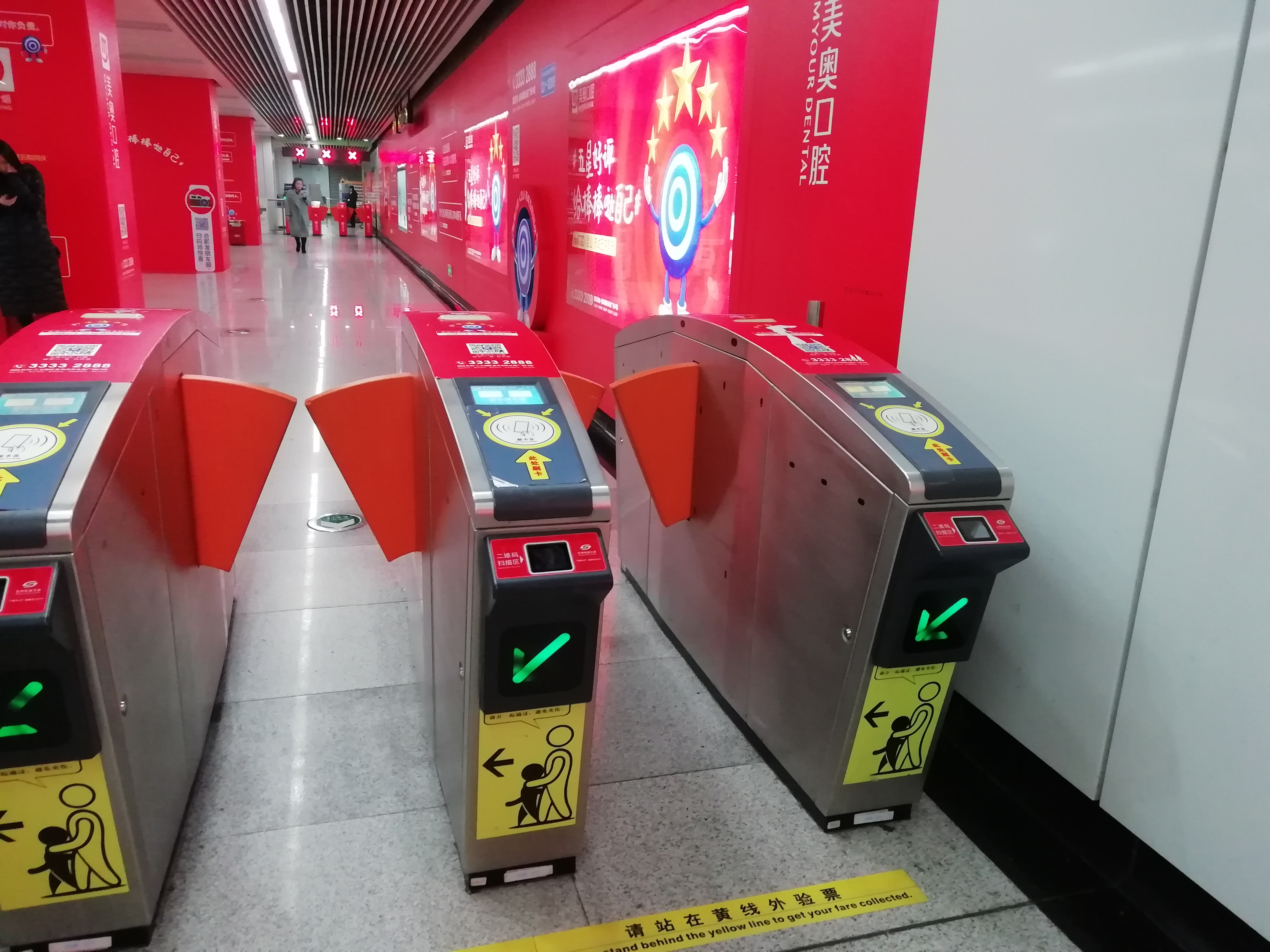 Turnstiles with QR Code Scanner, located in Dongfangzhimen Station 中文（中国大陆）: 东方之门站内已经加装二维码扫描区的闸机